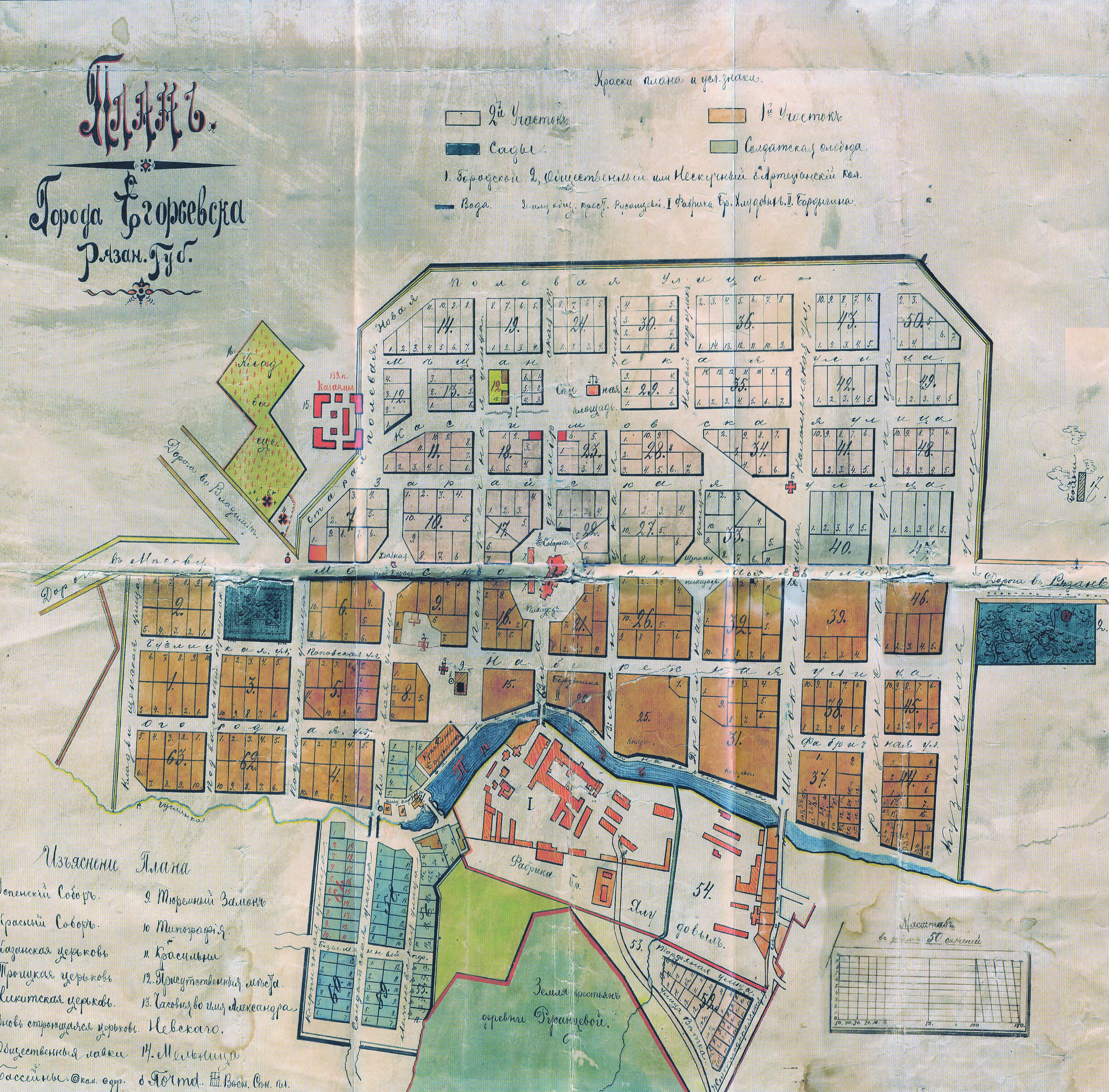 The city of Yegoryevsk, end of 19th century.